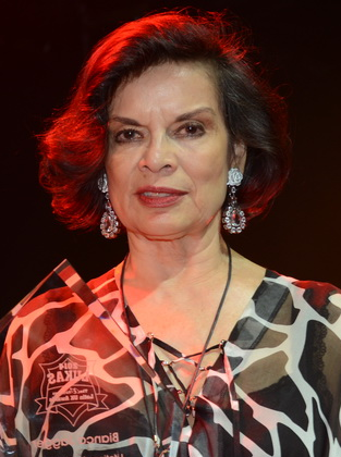 Bianca Jagger at the 2014 Latin UK Awards (LUKAS).